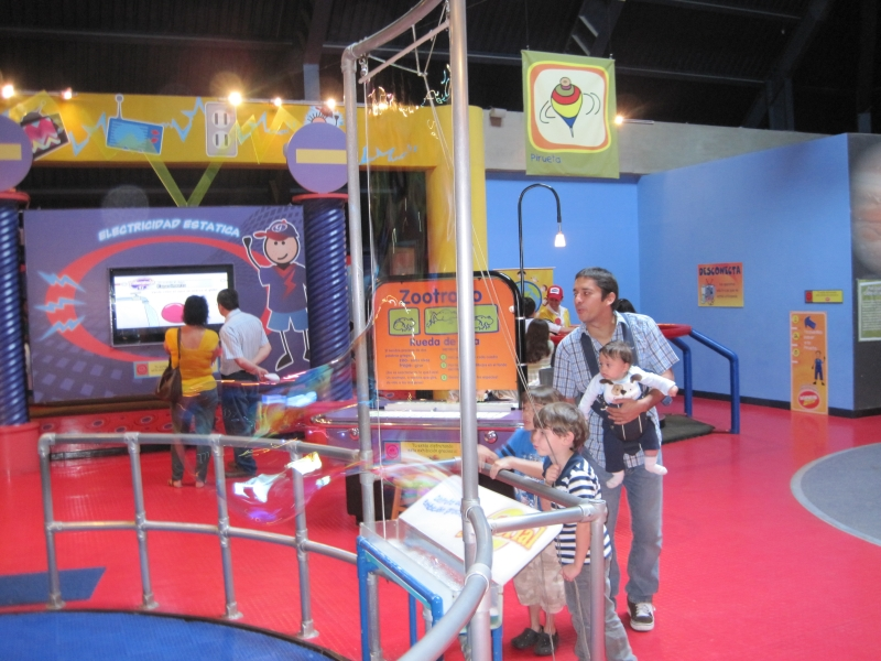 bubble-magic-childrens-museum-guatemala